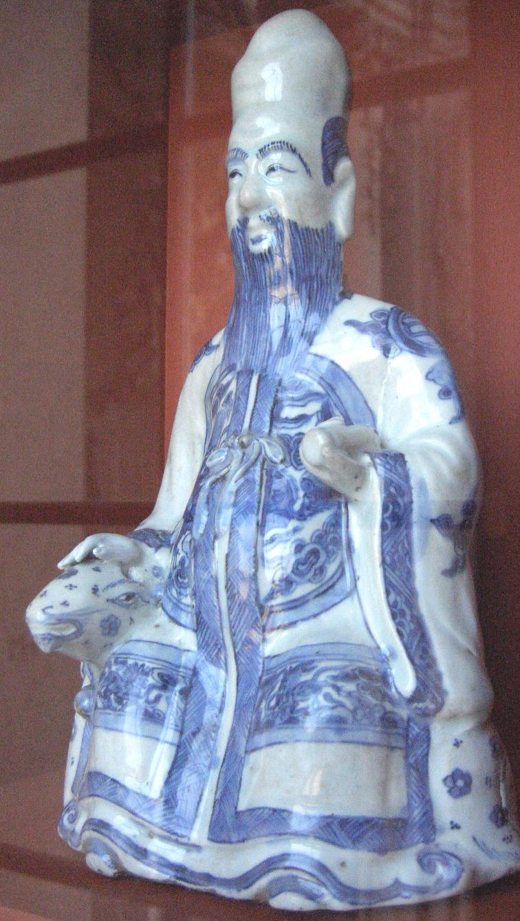 Shoulao (Chinese God of Longevity) - Qing Dynasty Porcelain Porzellansammlung im Dresdner Zwinger, Dresden (Germany)